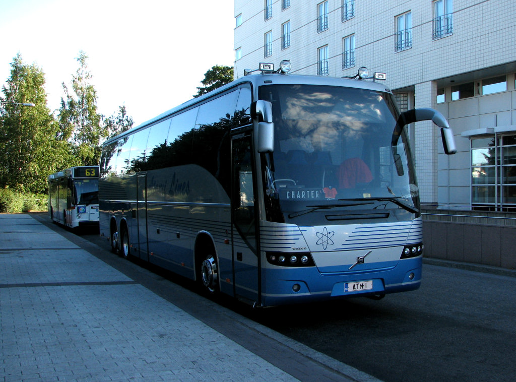 Atomi Lines Volvo 9700HD 6x2 (reg. ATM-1).